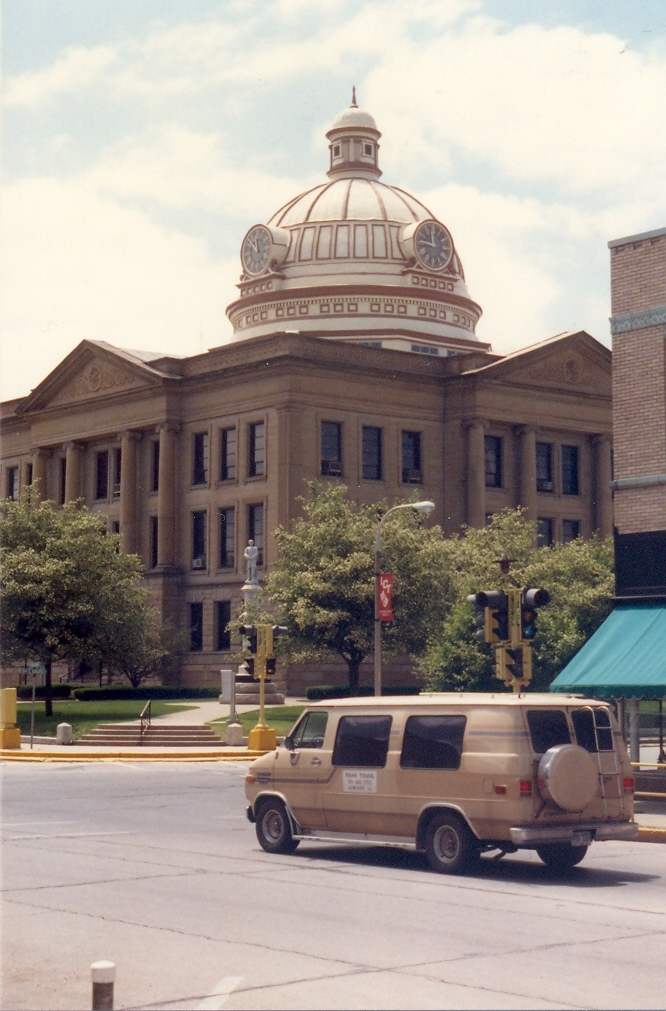 Logan County Courthouse, Lincoln, Illinois